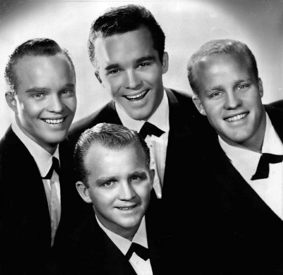 Photo of the Crosby Brothers. These are the sons of Bing Crosby from his first marriage; they performed as an act at one time. From left-Gary, Lindsay, Phillip and Dennis at center.